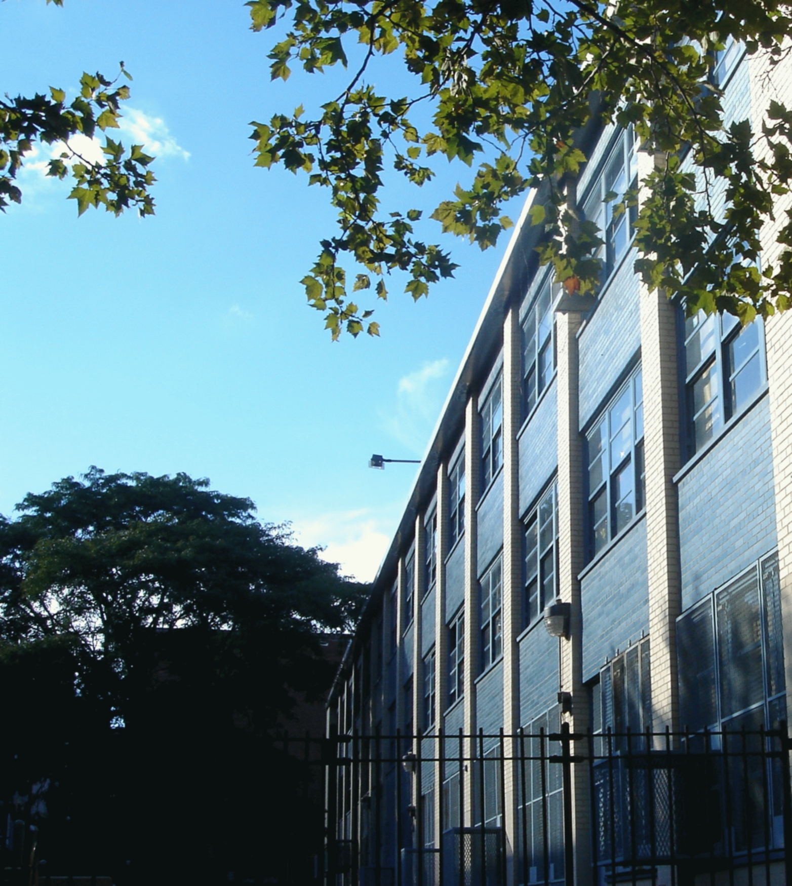 PS 9 / PS334 -- New York NY Windows, south side of building.